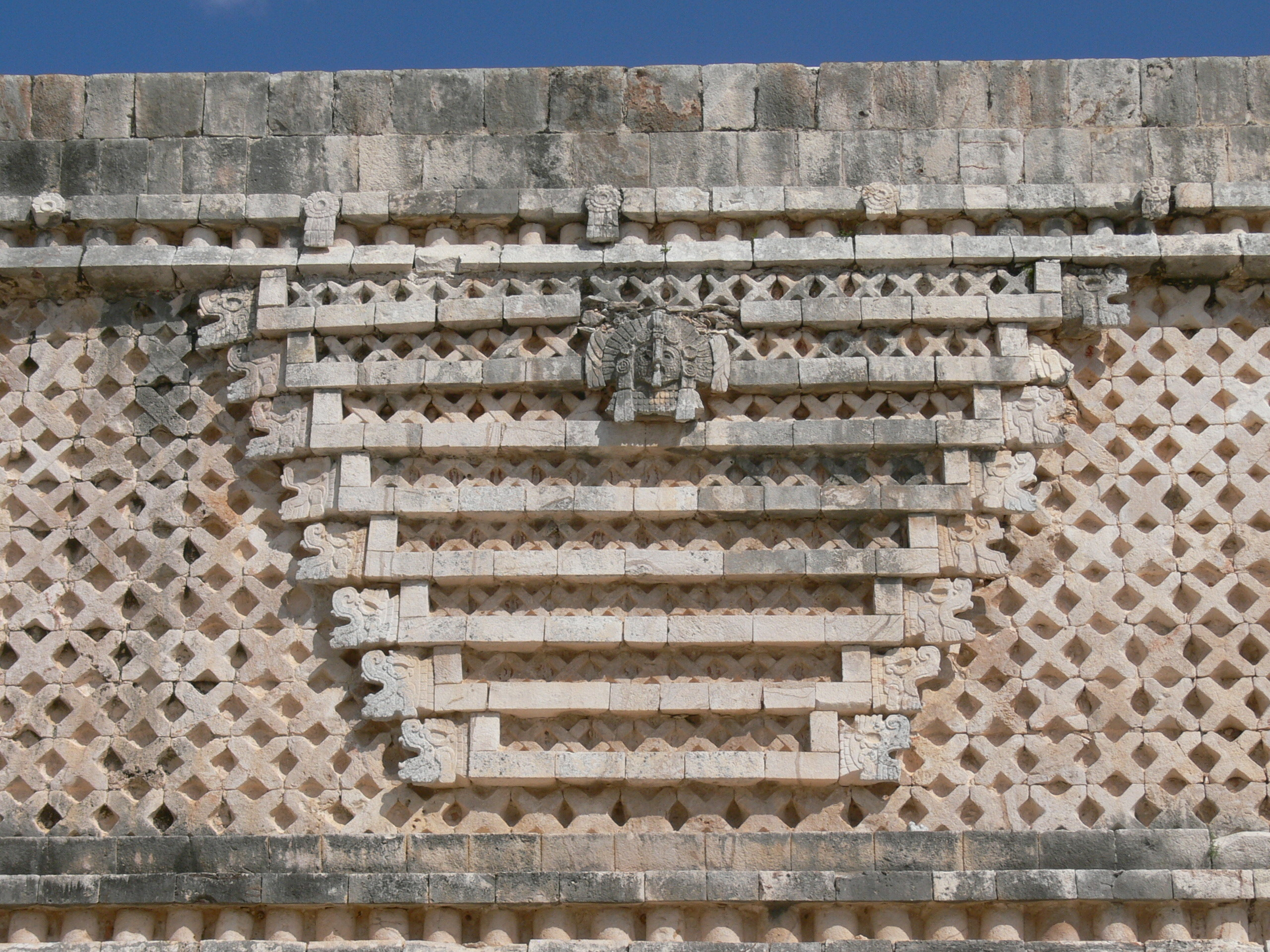 Uxmal ( Yucatan ). Cuadrangulo de las Monjas: Eastern palace - Mask of a god with snakes.